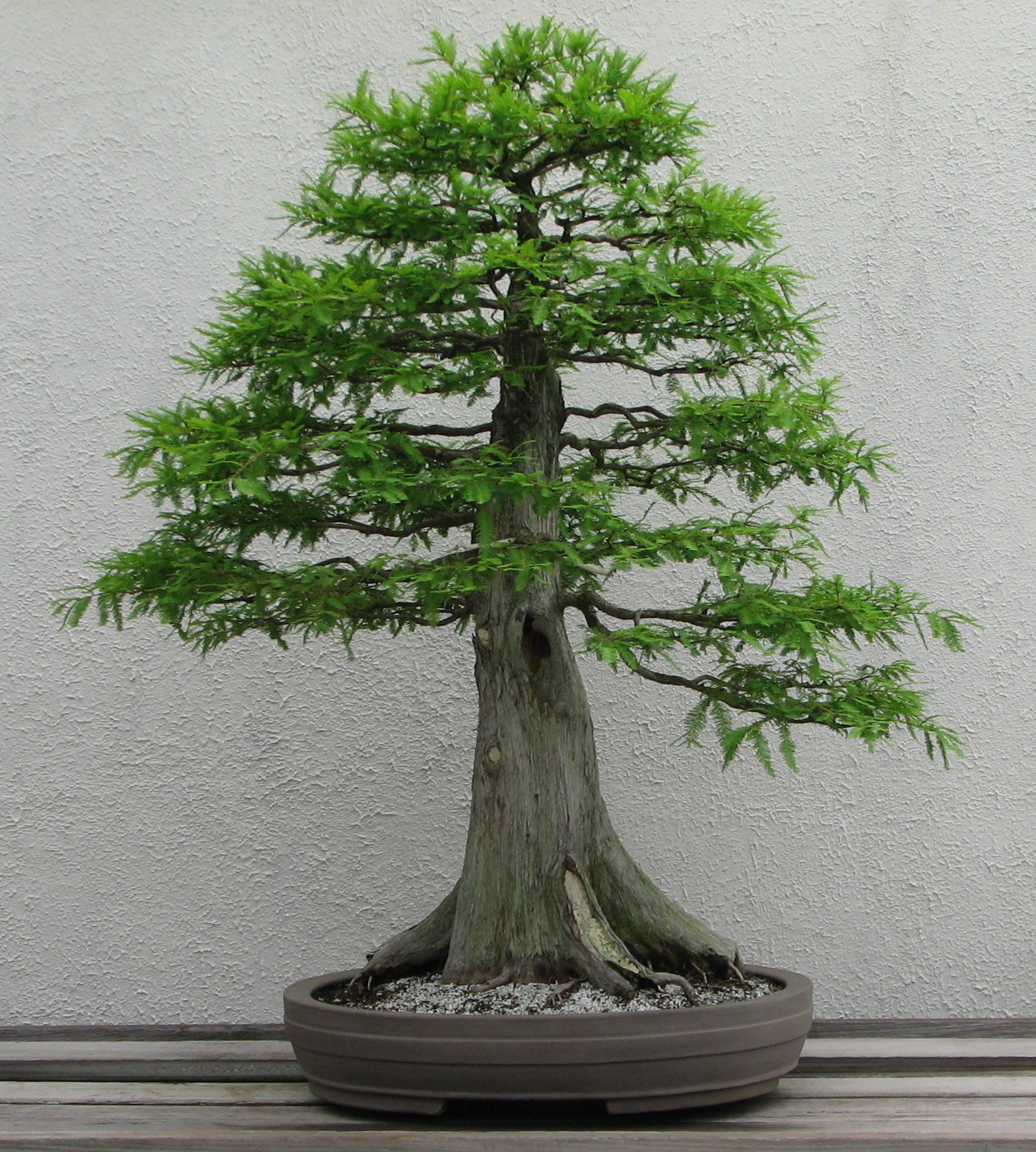 A Bald Cypress (Taxodium distichum) bonsai on display at the National Bonsai & Penjing Museum at the United States National Arboretum. According to the tree's display placard, it has been in training since 1987. It was donated by Guy Guidry. This is the "back" of the tree.